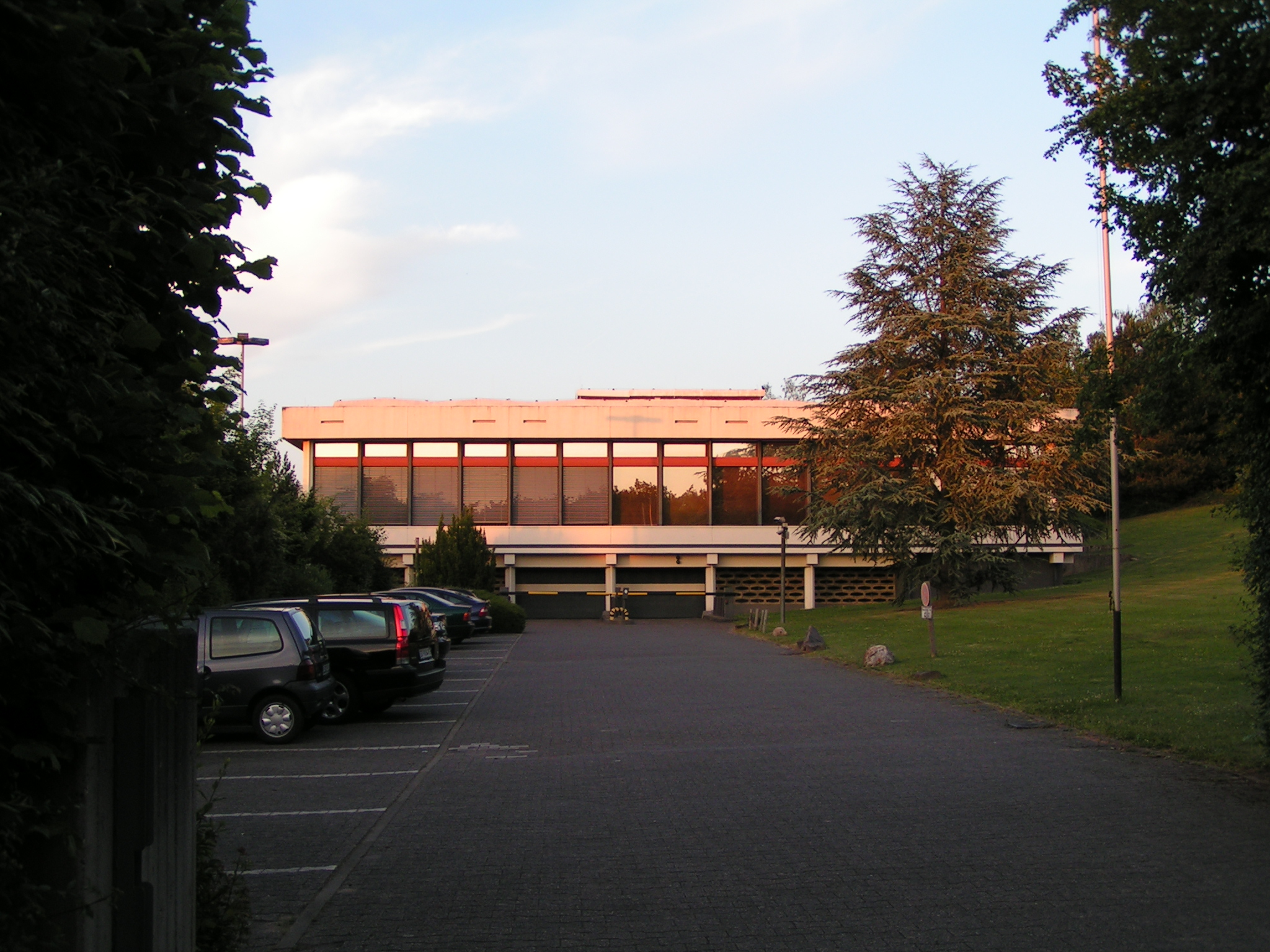 Deutsche Richterakademie in Trier, Germany